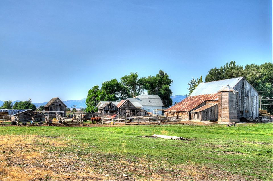 Morgan Farm in Nibley City